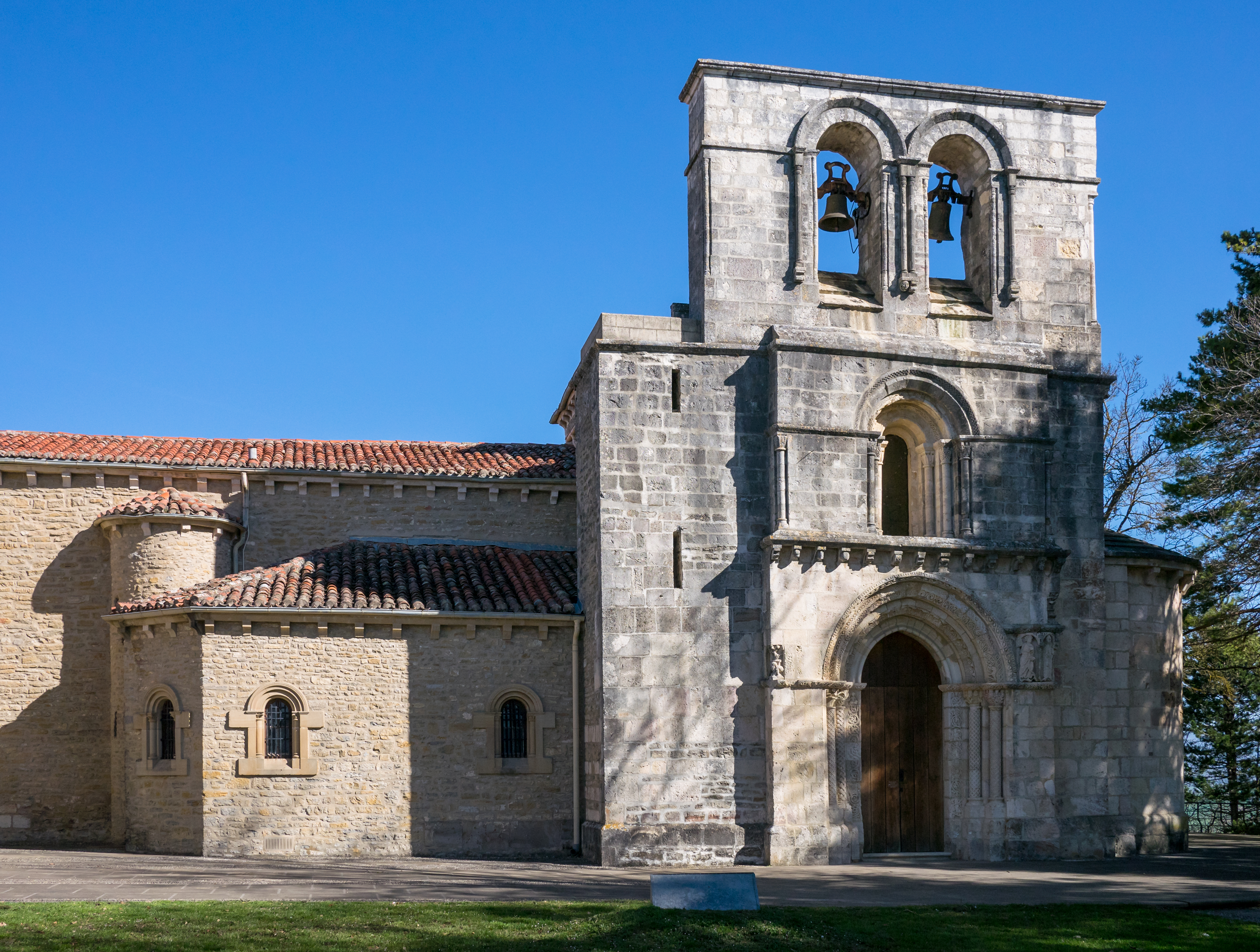 Estibaliz monastery. Álava, Basque Country, Spain